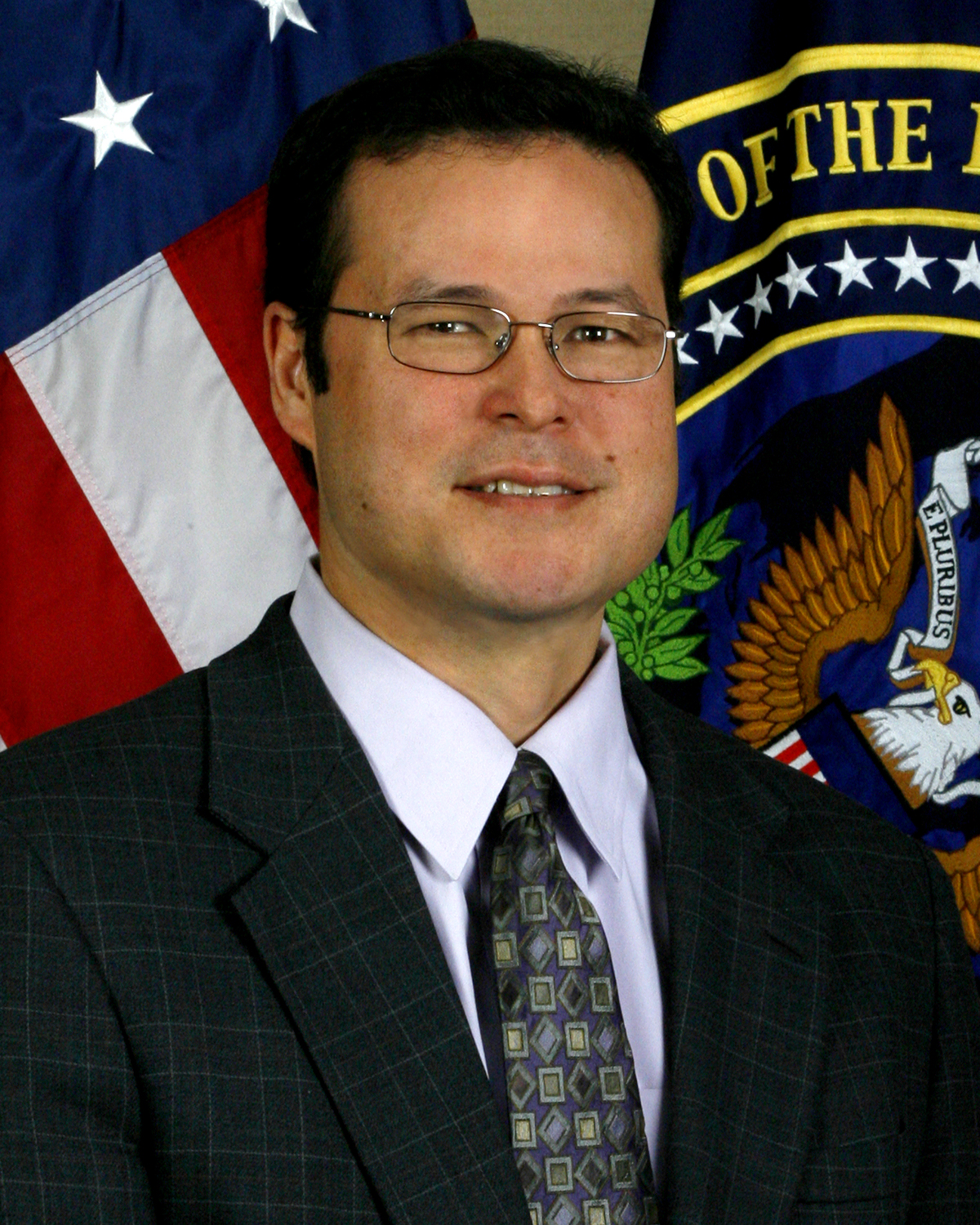 Official portrait of Civil Liberties Protection Officer Alex Joel.